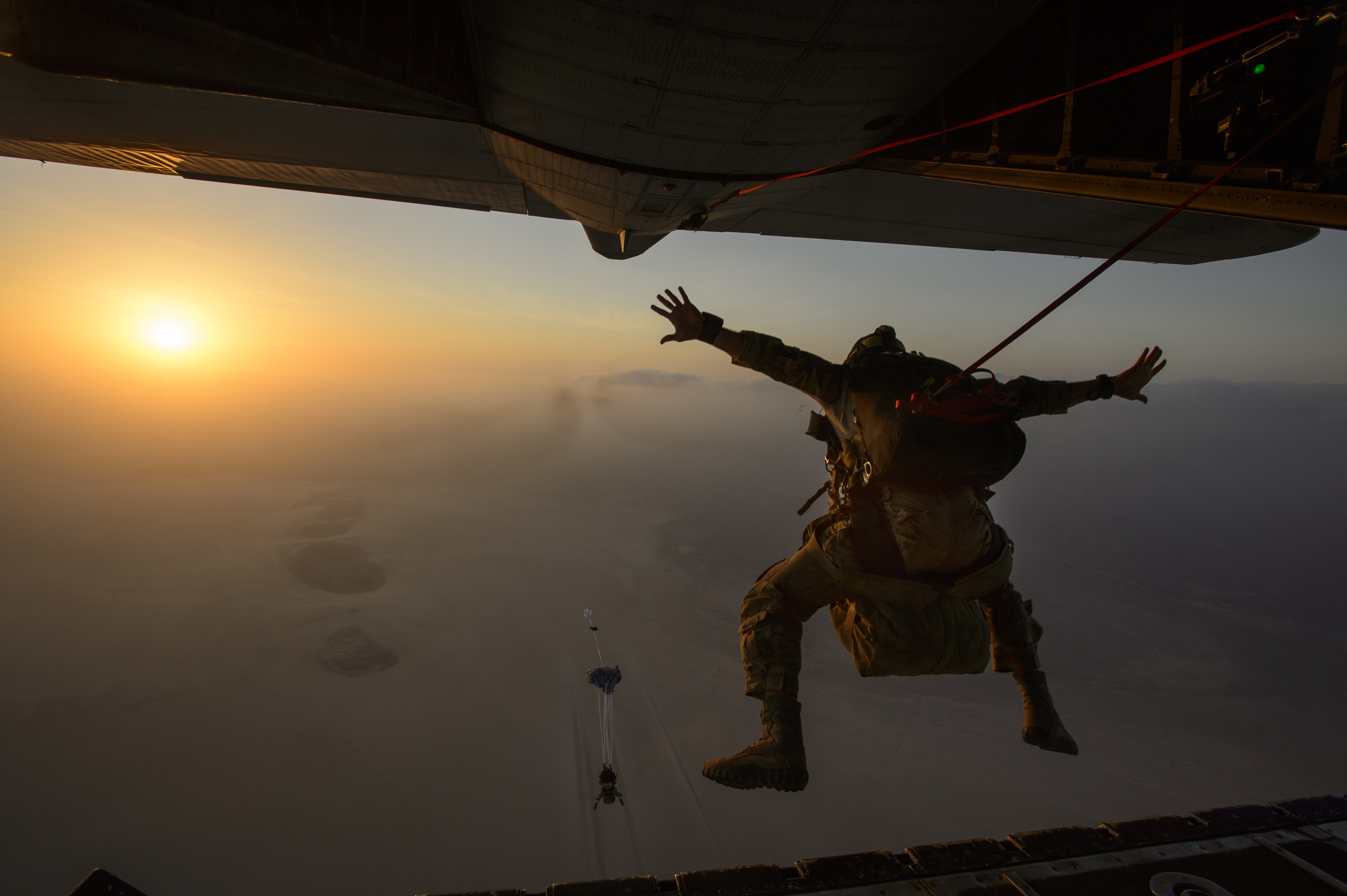 A U.S. Air Force pararescueman assigned to the 82nd Expeditionary Rescue Squadron jumps from an Air Force HC-130P/N King aircraft near Camp Lemonnier, Djibouti, Jan. 9, 2014.